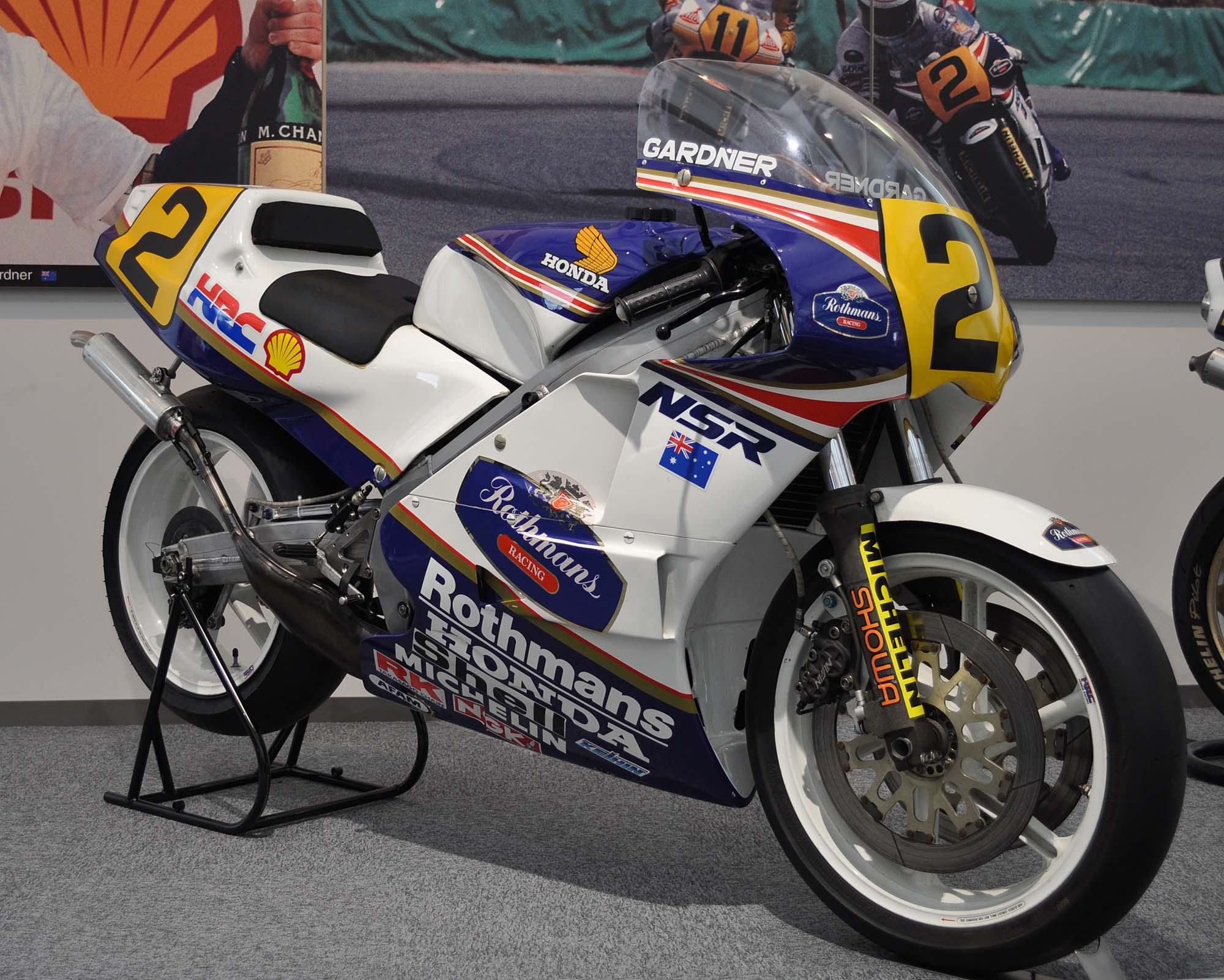 Honda NSR500 (Wayne Gardner, 1987)